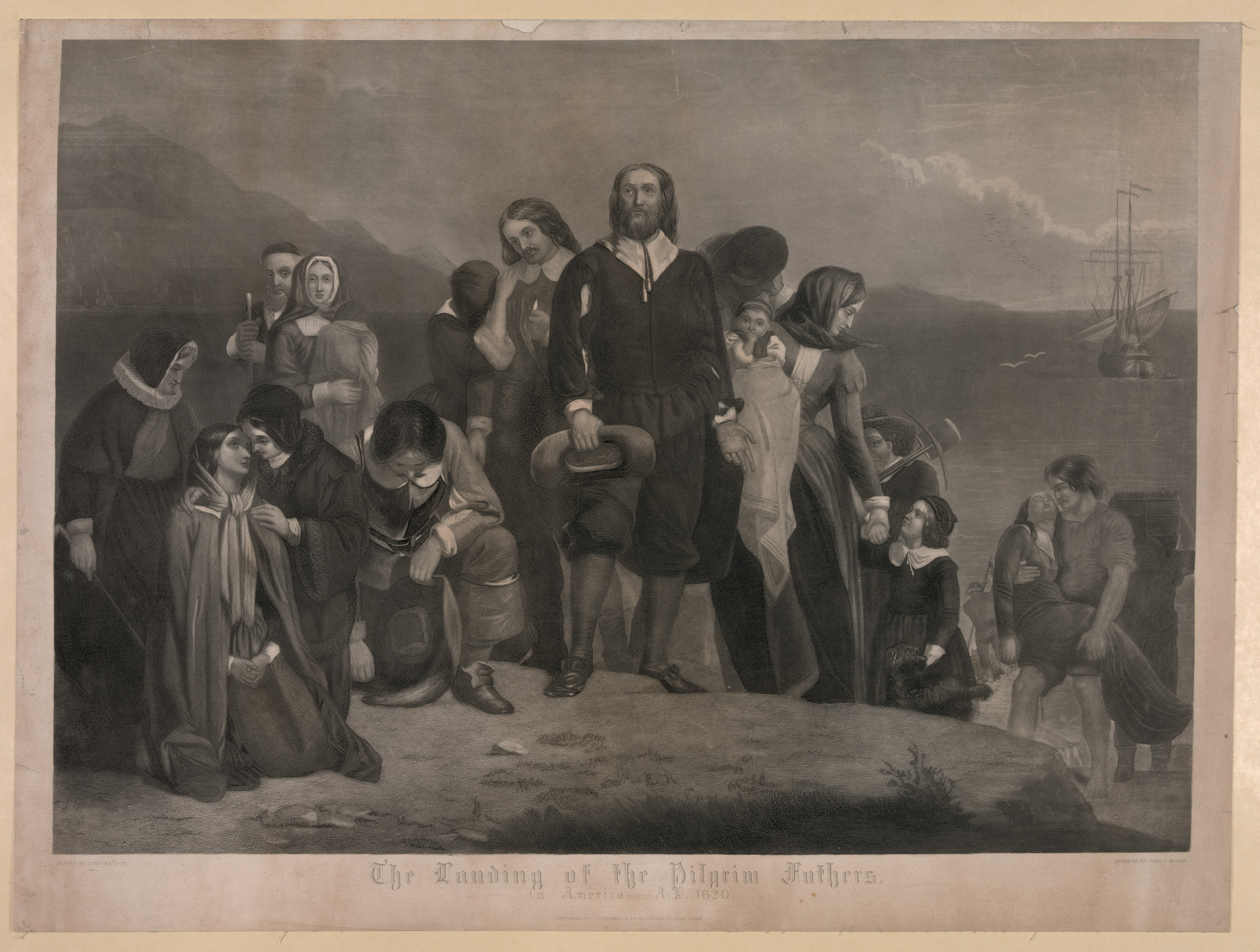 Title: The landing of the pilgrim fathers, in America. A.D. 1620 Physical description: 1 print. Notes: Associated name on shelflist card: McRae, John C.; This record contains unverified data from PGA shelflist card.